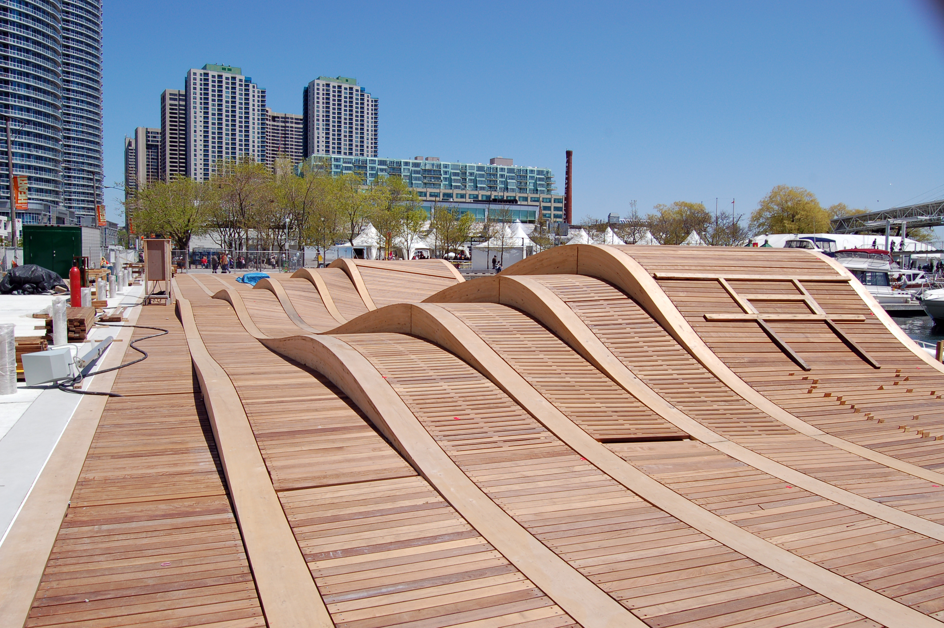 West8+DTAH Simcoe wavedeck on Toronto waterfront nearing completion